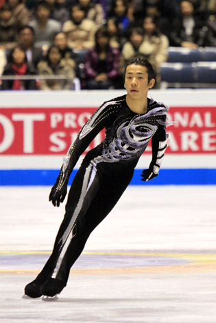 Nobunari Oda at the 2009-2010 Grand Prix of Figure Skating Final.